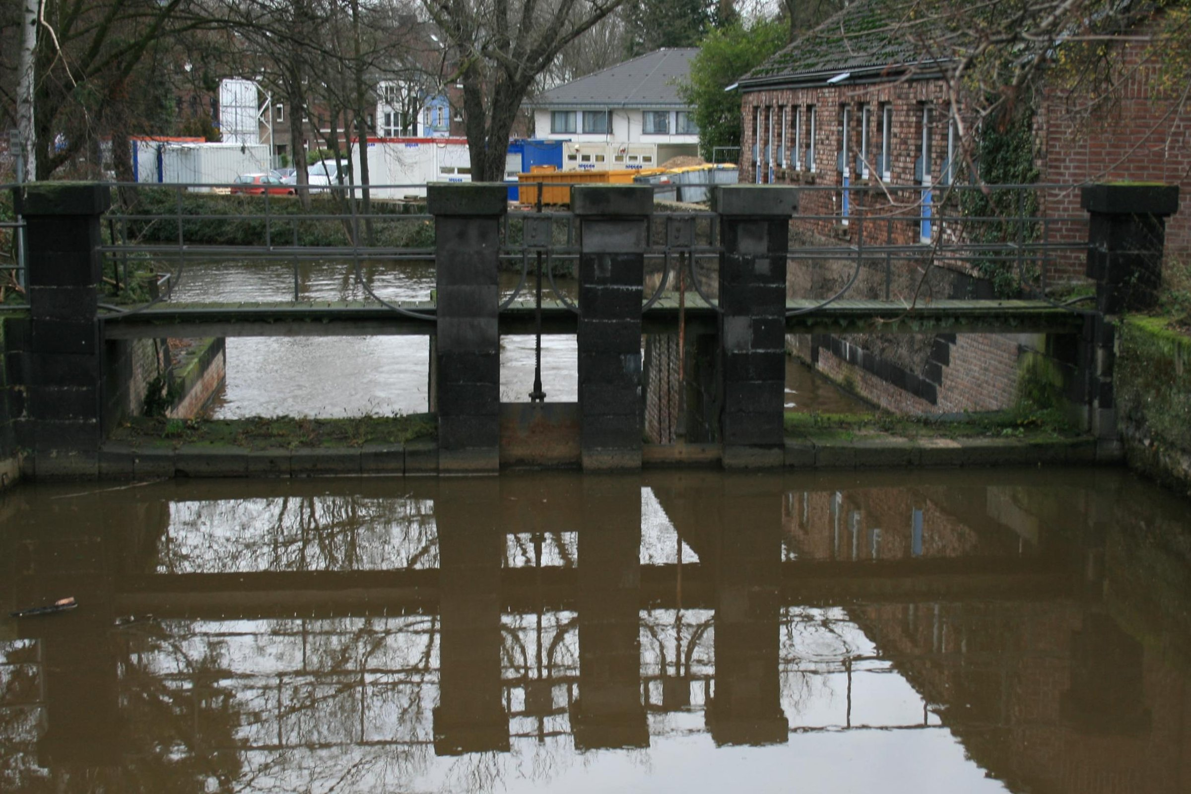 This is a photograph of an architectural monument. (1)